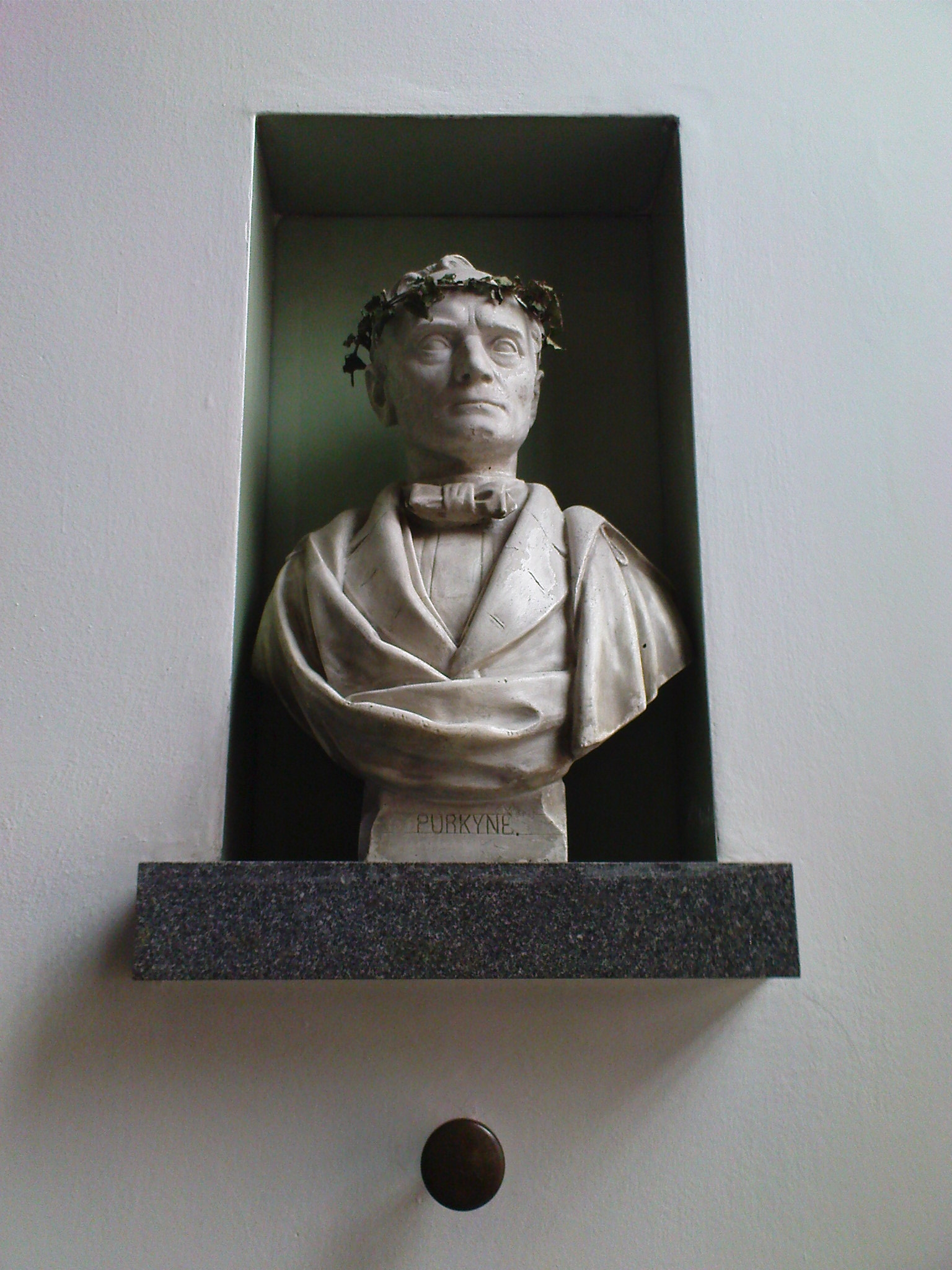 Bust of J. E. Purkyně at the Faculty of Education of Charles University in Prag